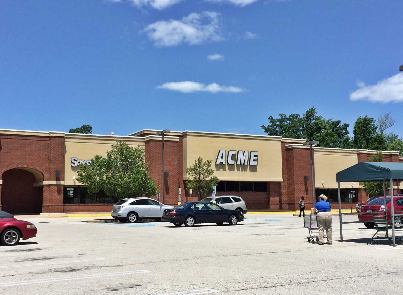 Acme Supermarket near Philadelphia